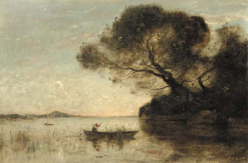 Le soir au Lac d'Albano